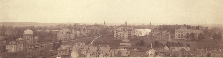 Panorama of Princeton University Campus c1895